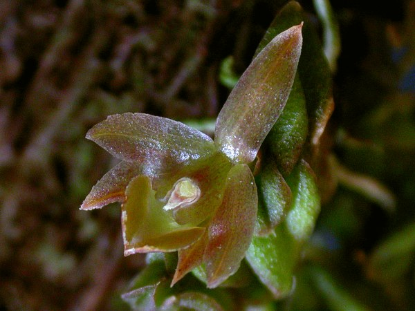 Nanodes discolor